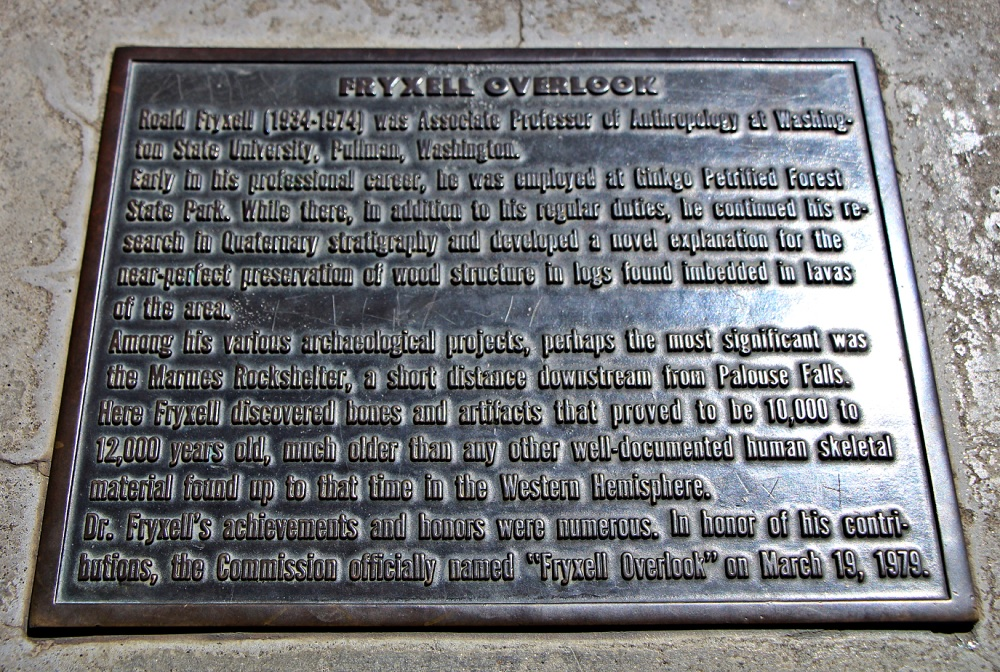 plaque at the Fryxell Overlook at Palouse Falls, Washington, pictured in July 2017